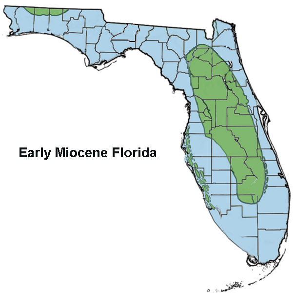 Depiction of early Miocene Florida based on Edward Petuch's images.